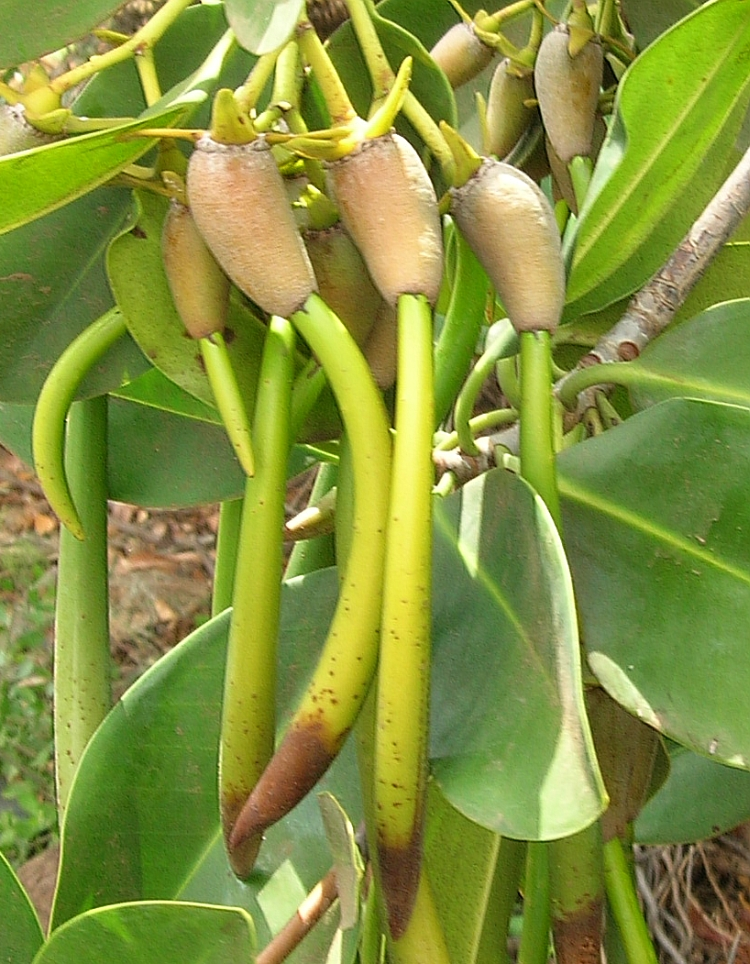 Rhizophora mangle (fruit). Location: Maui, Waiohuli Keokea